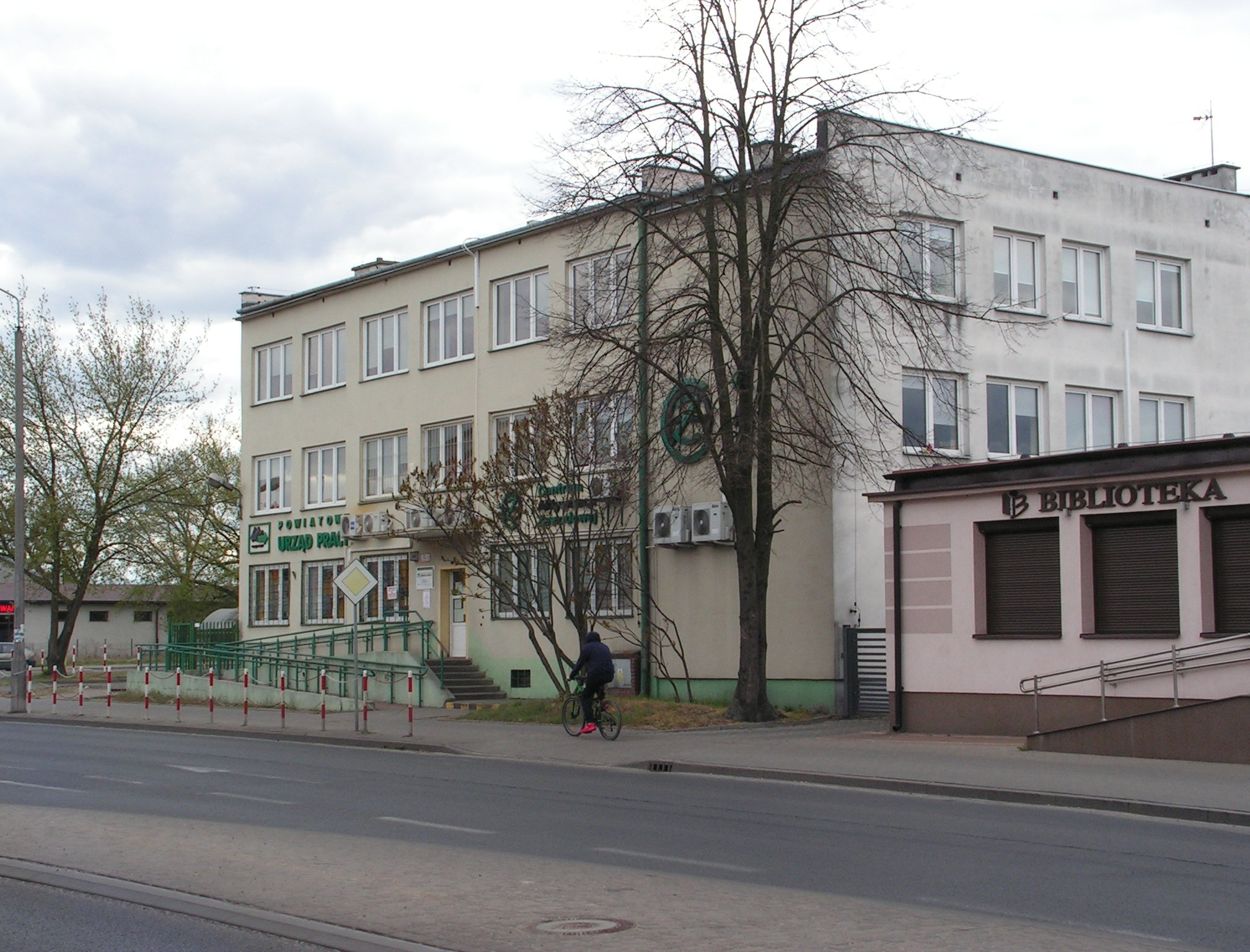 Bulding of Centrum Aktywizacji Zawodowej - Powiatowy Urząd Pracy (Occupational Activation Centre - Powiat Labor Office) at 24 Kapitulna Street in Włocławek.